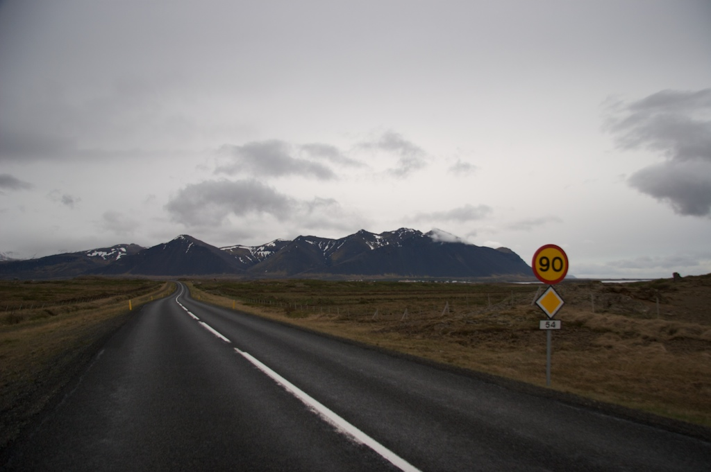 Endless roads